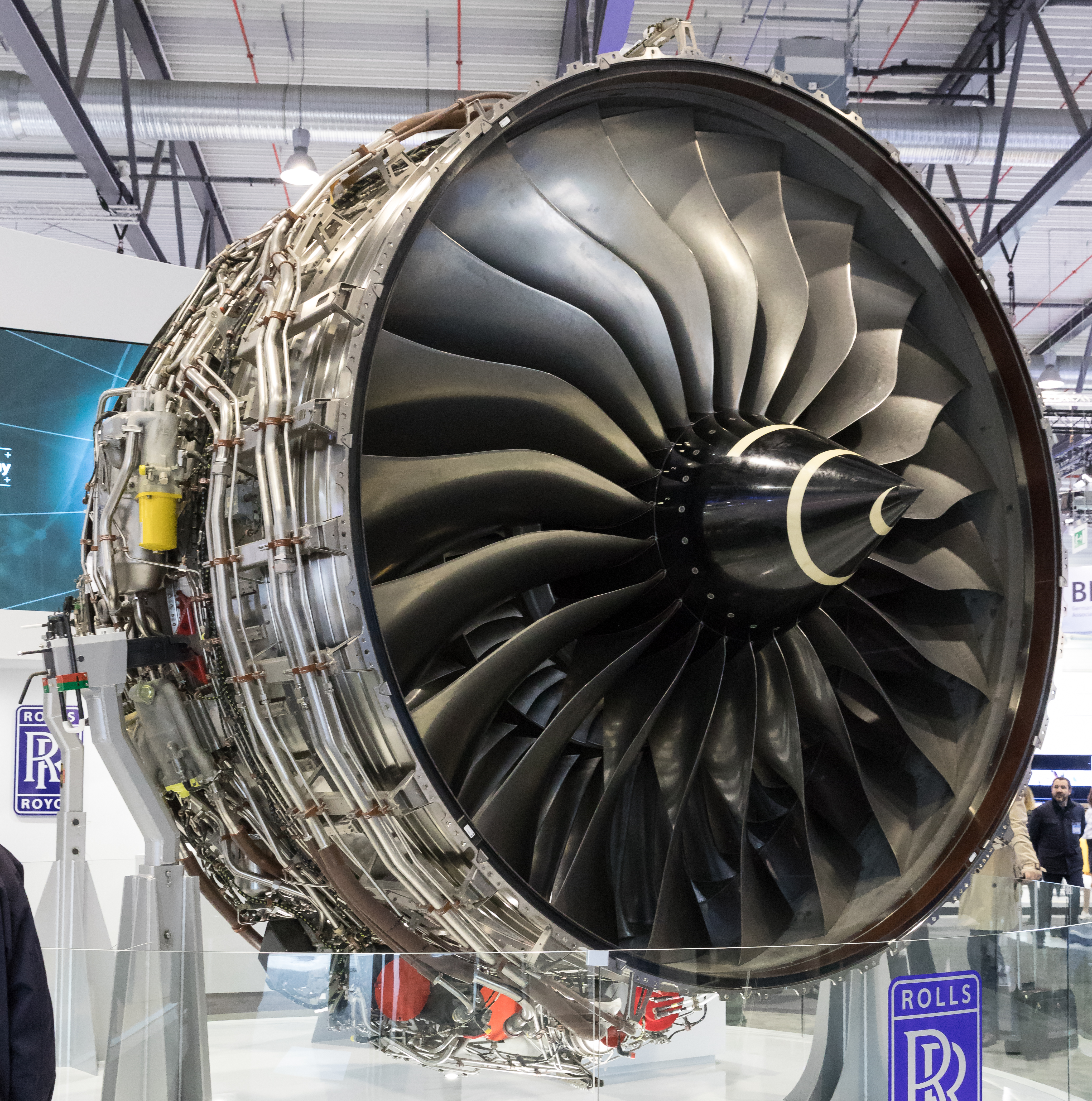 ILA 2018